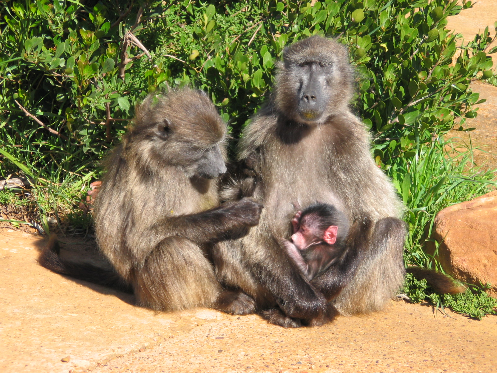 Chacma baboons, cape of good hope